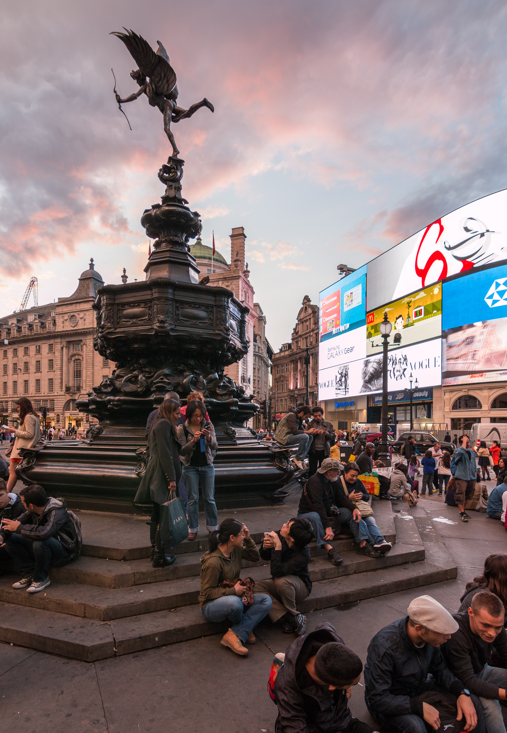 Piccadilly Circus